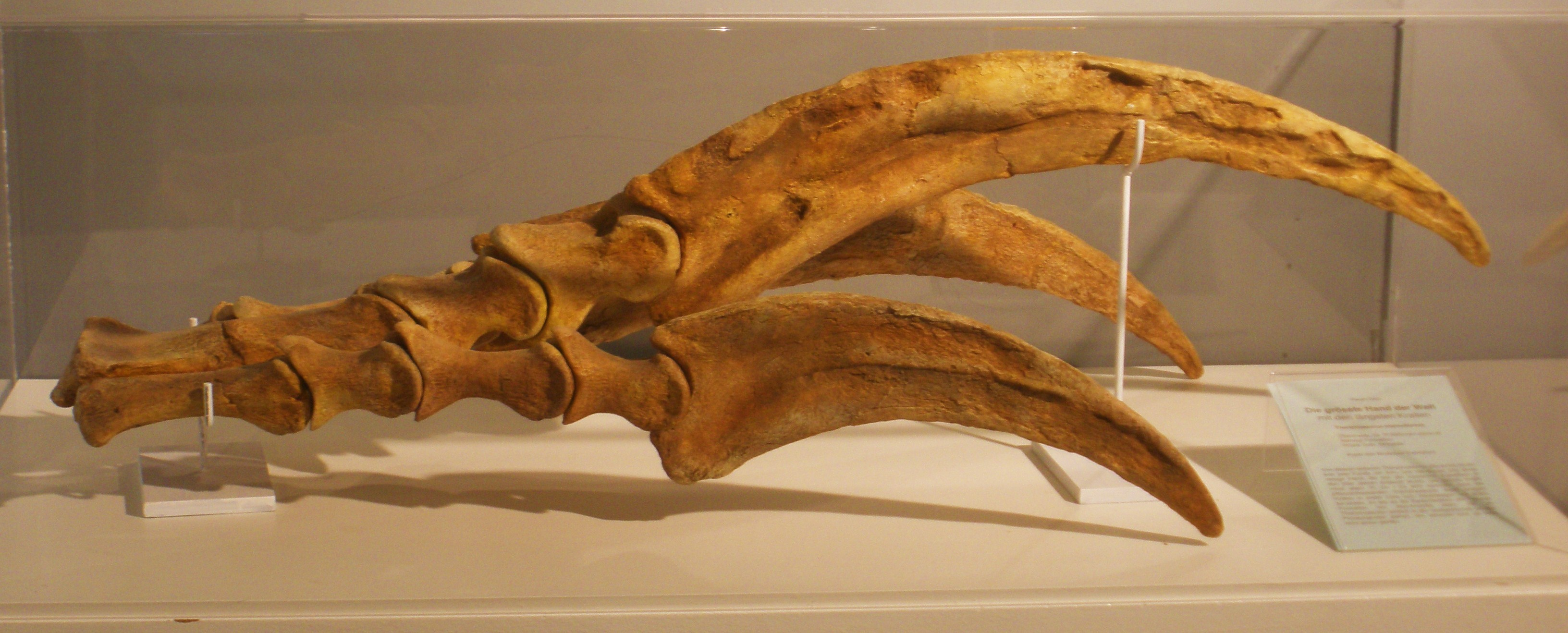 fossil of Therizinosaurus